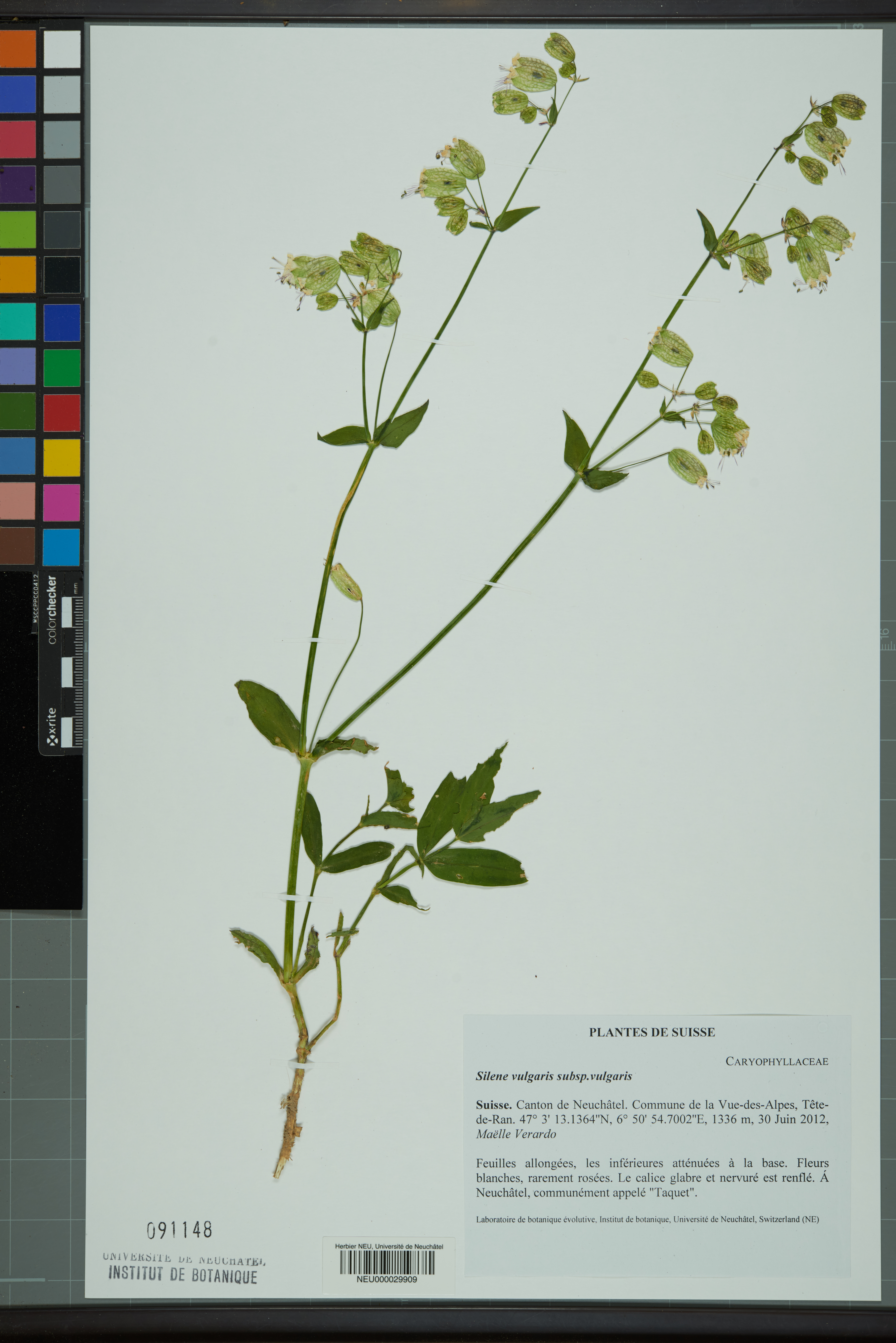 Dried pressed specimen of Silene vulgaris